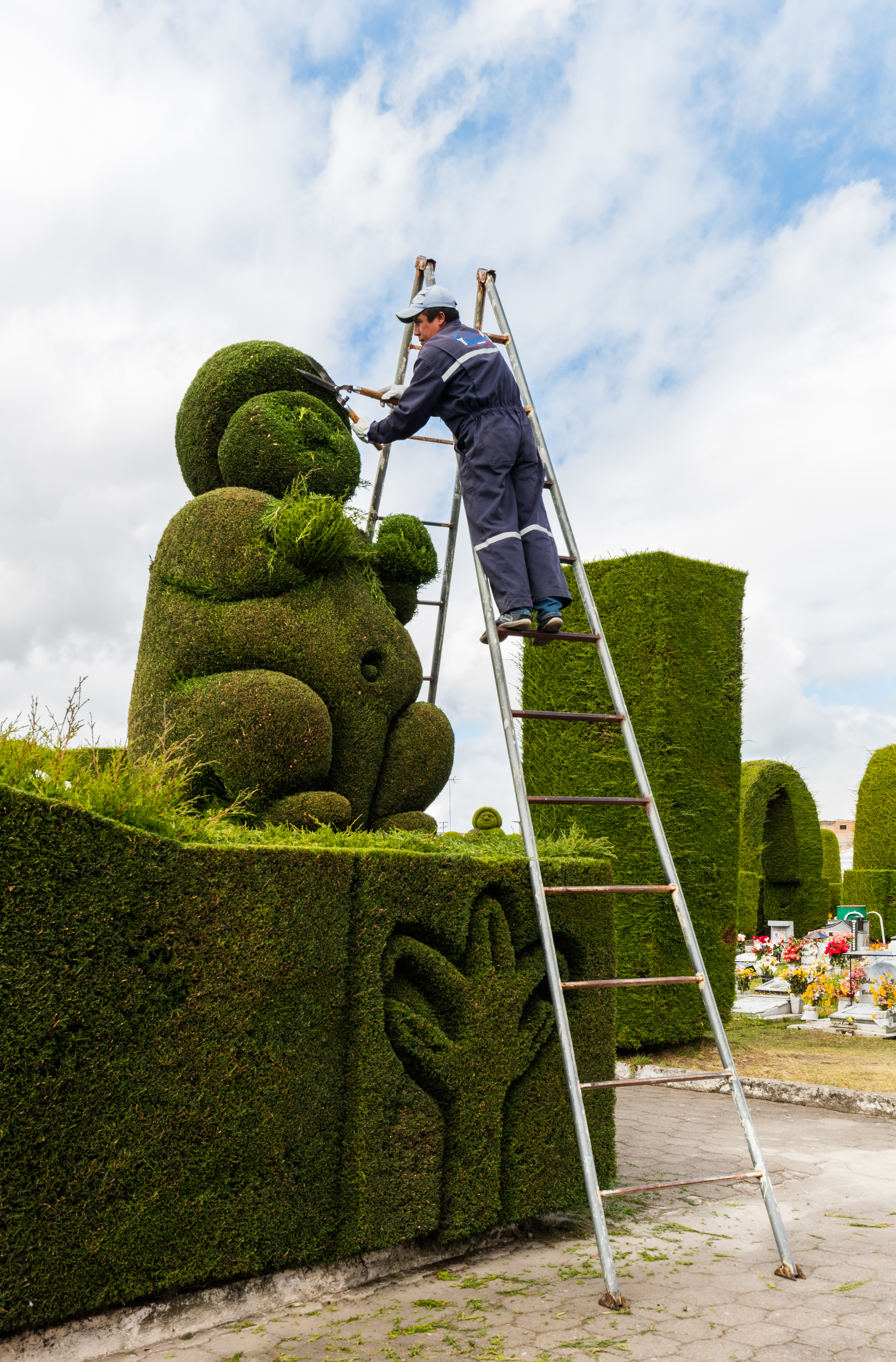 Cemetery, Tulcán, Ecuador